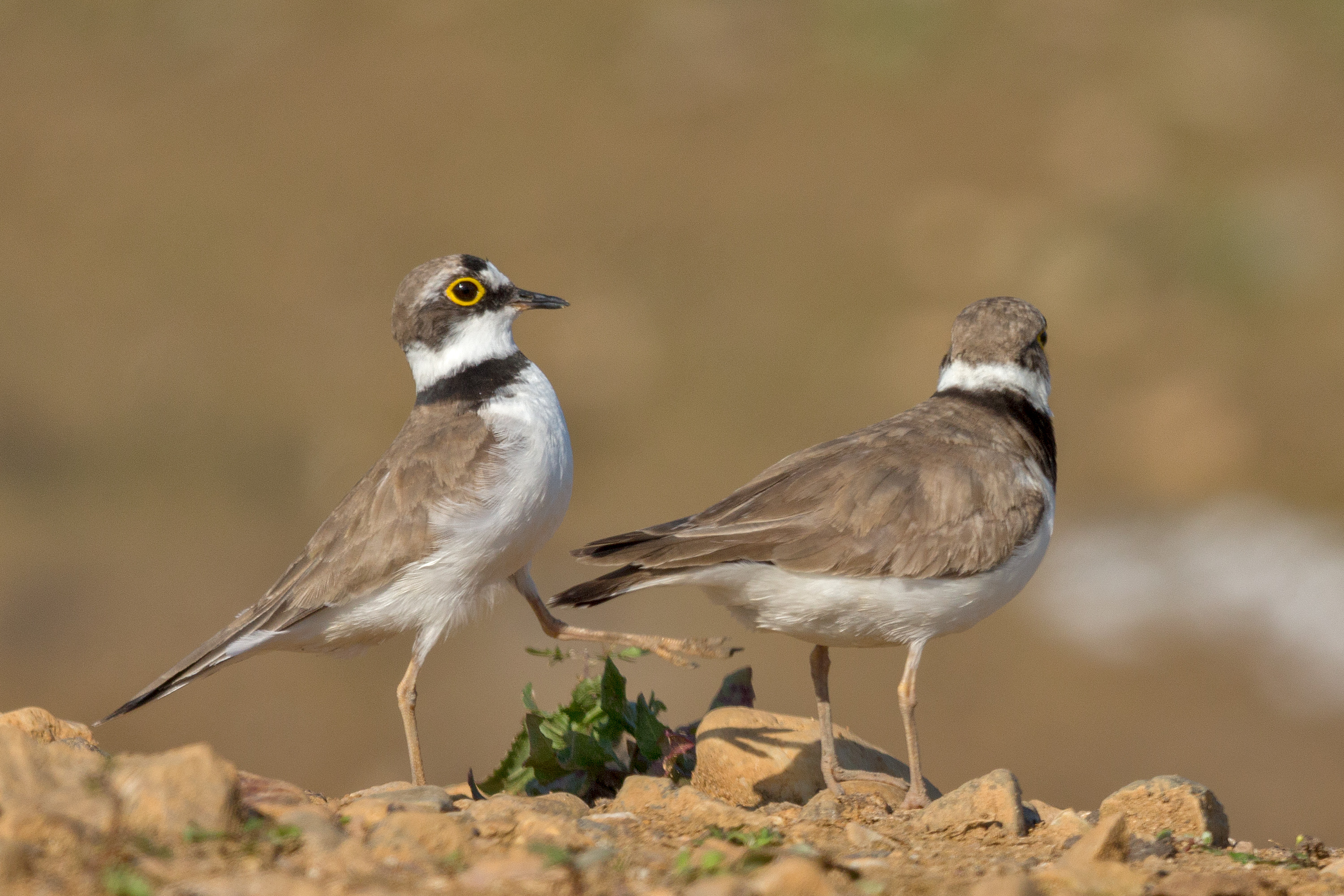 Little ringed plover: Mating, the male birds hits the cloaca of the female bird